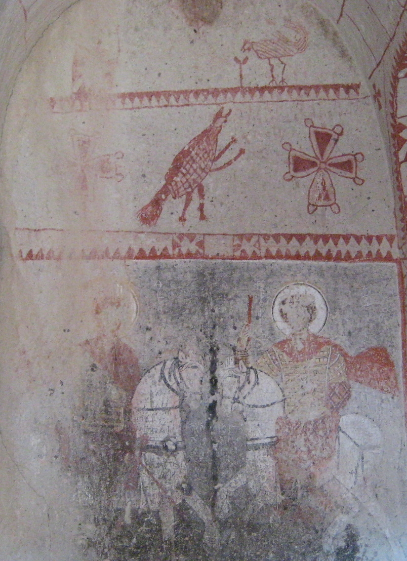 Sst. George and Theodore, killing the dragon. Upper level: St. Peter's rooster with maltian cross, and grasshopper (Christ's symbol). Fresco in St.Barbara church in open air museum, Goreme. VIII-IX c. (iconoclasm time)